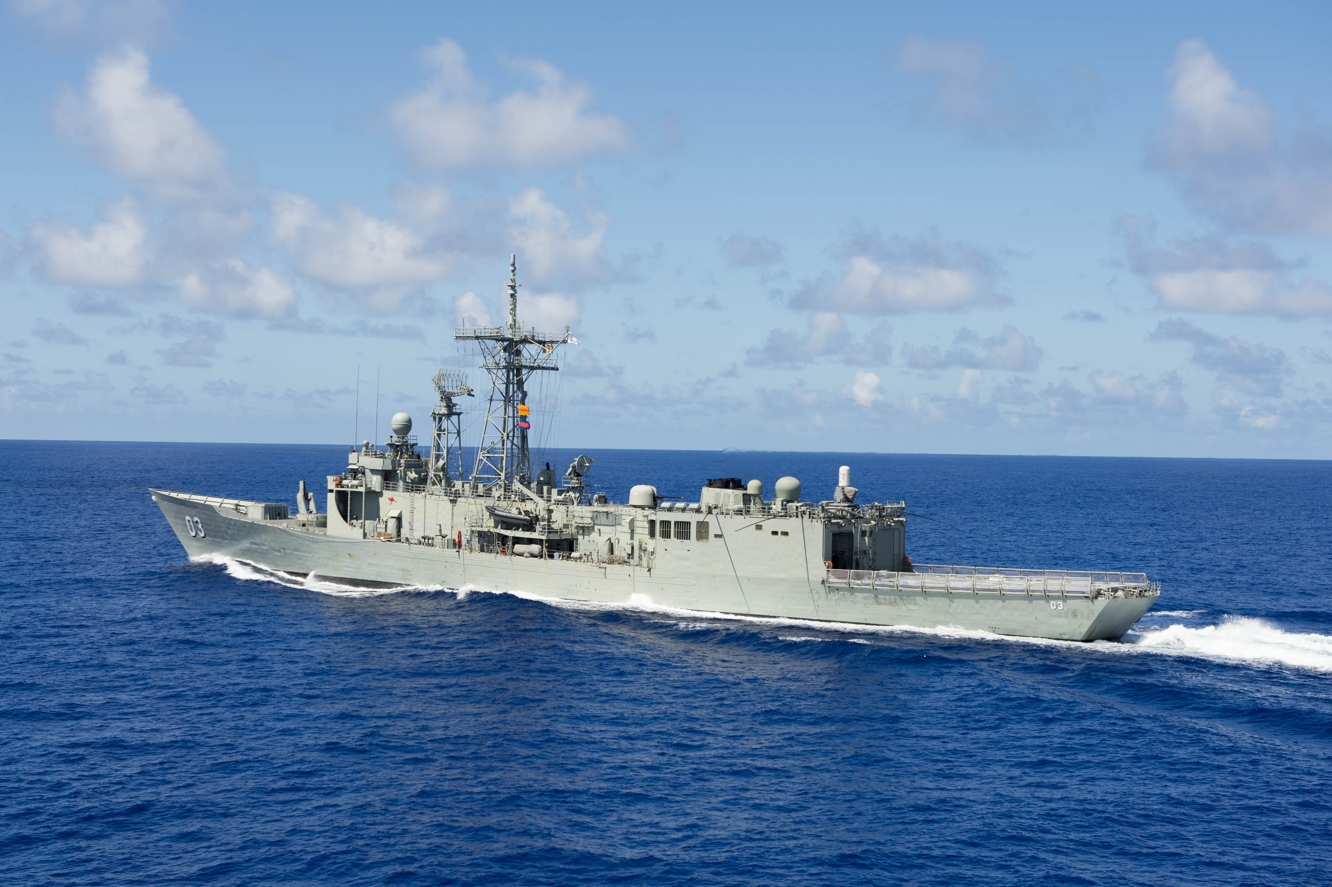 The Royal Australian Navy guided-missile frigate HMAS Sydney (FFG 03) passes alongside the Arleigh Burke-class guided-missile destroyer USS Preble (DDG-88), not visible, following a maneuvering exercise during "Pacific Bond 2013".